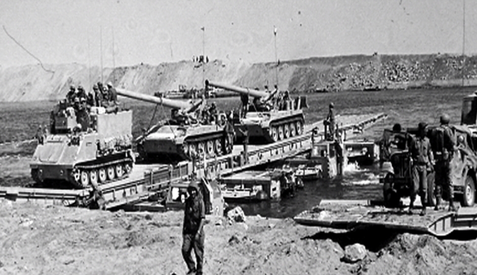 The photo is taken from the West Bank of the Suez Canal, at the time of the cannon battalion of our artillery regiment